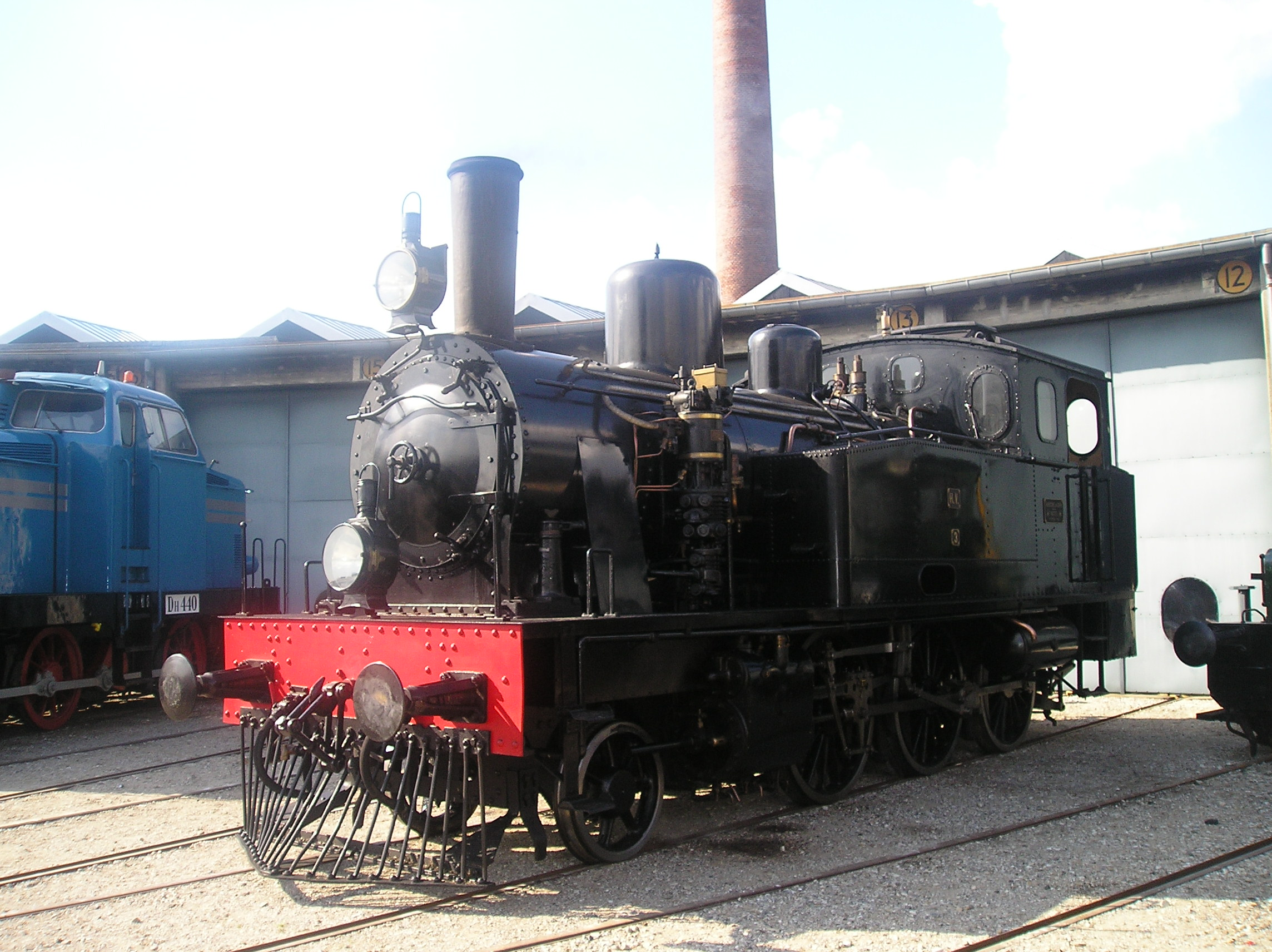 Danish steam locomotive HV 3 at Danmarks Jernbanemuseum in Odense. The locomotive belongs to Mariager-Handest Veteranjernbane.